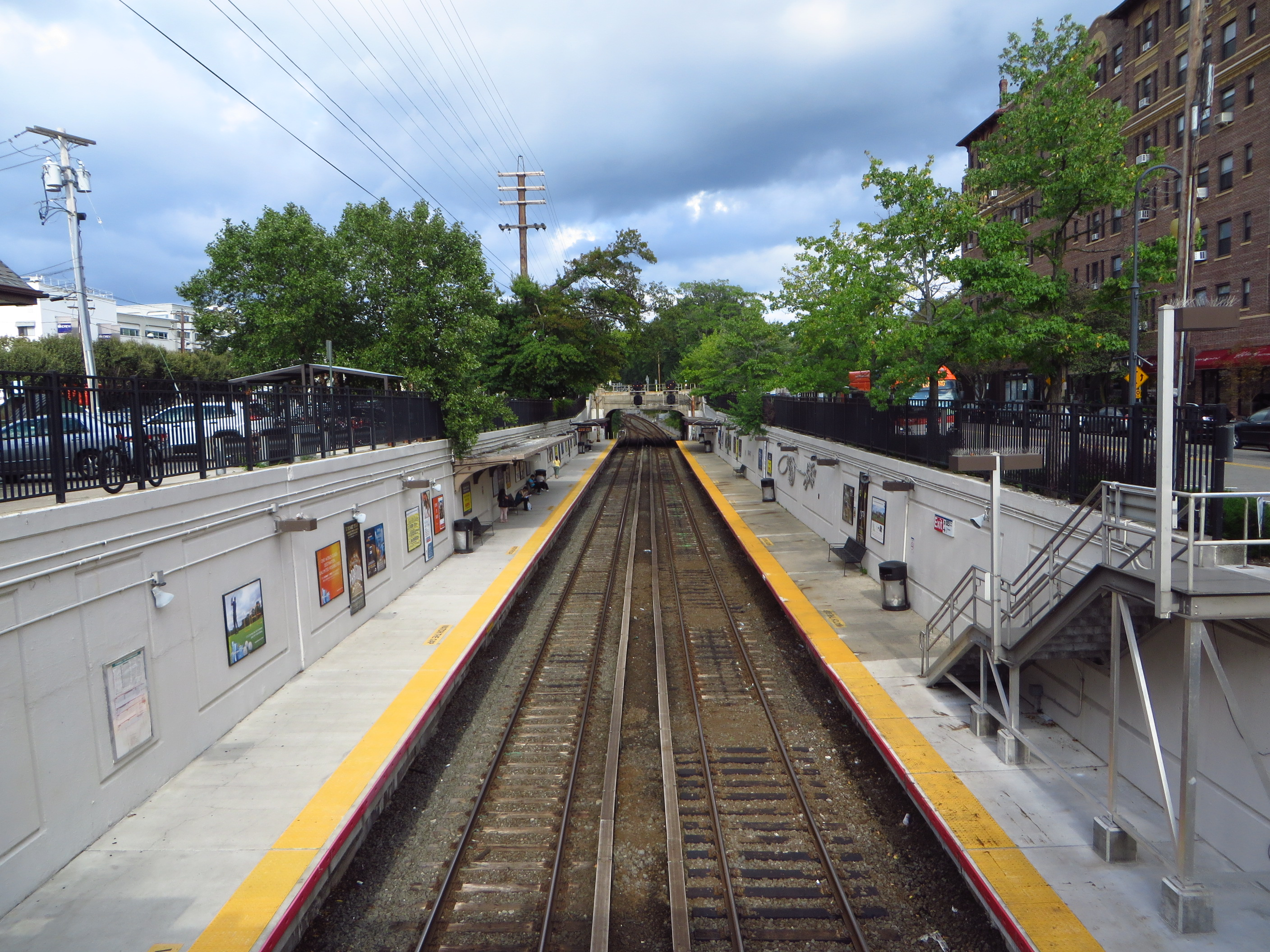 A view of the Great Neck Long Island Rail Road station, seen from the pedestrian overpass linking the two platforms.